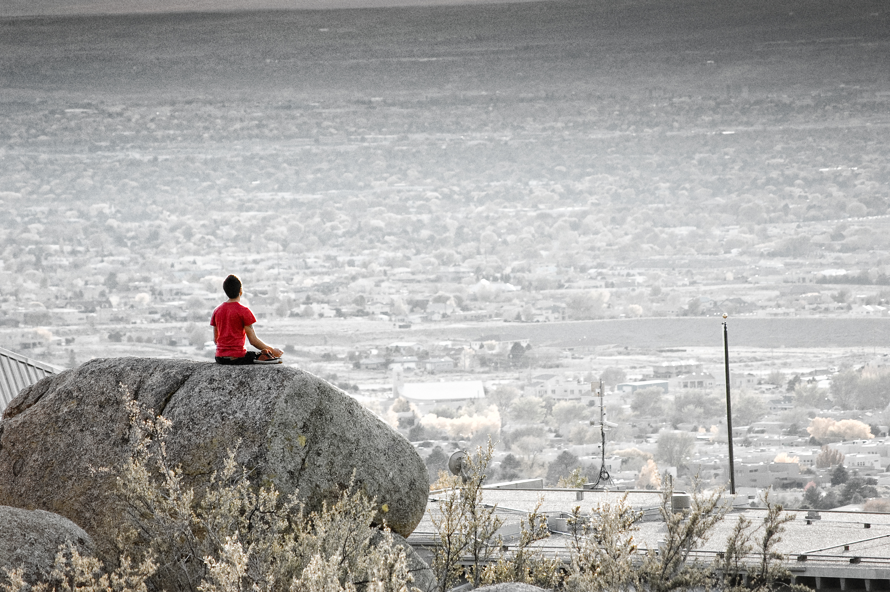 Meditation is a part of the yoga teachings in Buddhism, Hinduism and Jainism